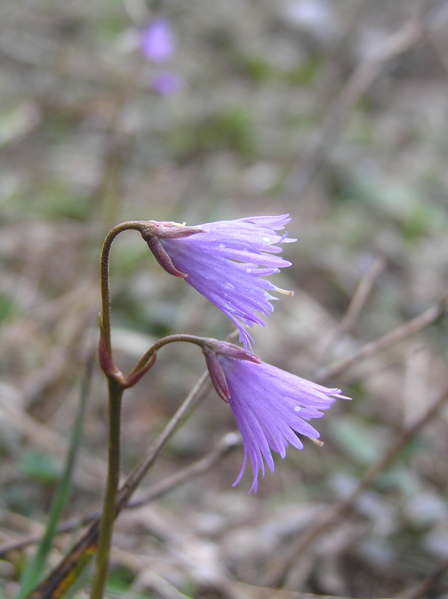 Soldanella montana, Austria, Alps, the mountin Schneeberg near Wiener Neustadt